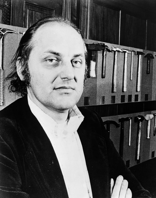 Austrian architect and designer Hans Hollein stand in front of his exhibit "Variations of a Product: Hammers" at the Cooper-Hewitt Museum of Decorative Arts and Design. The concept behind "MAN TRANSFORMS", the opening exhibition of the museum in its new home in the renovated Carnegie Mansion, was Hollein's creation. 1976.